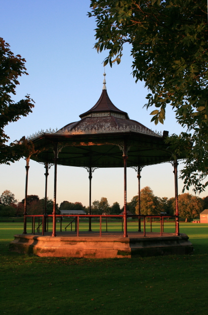 The West Park Bandstand In the setting sun.